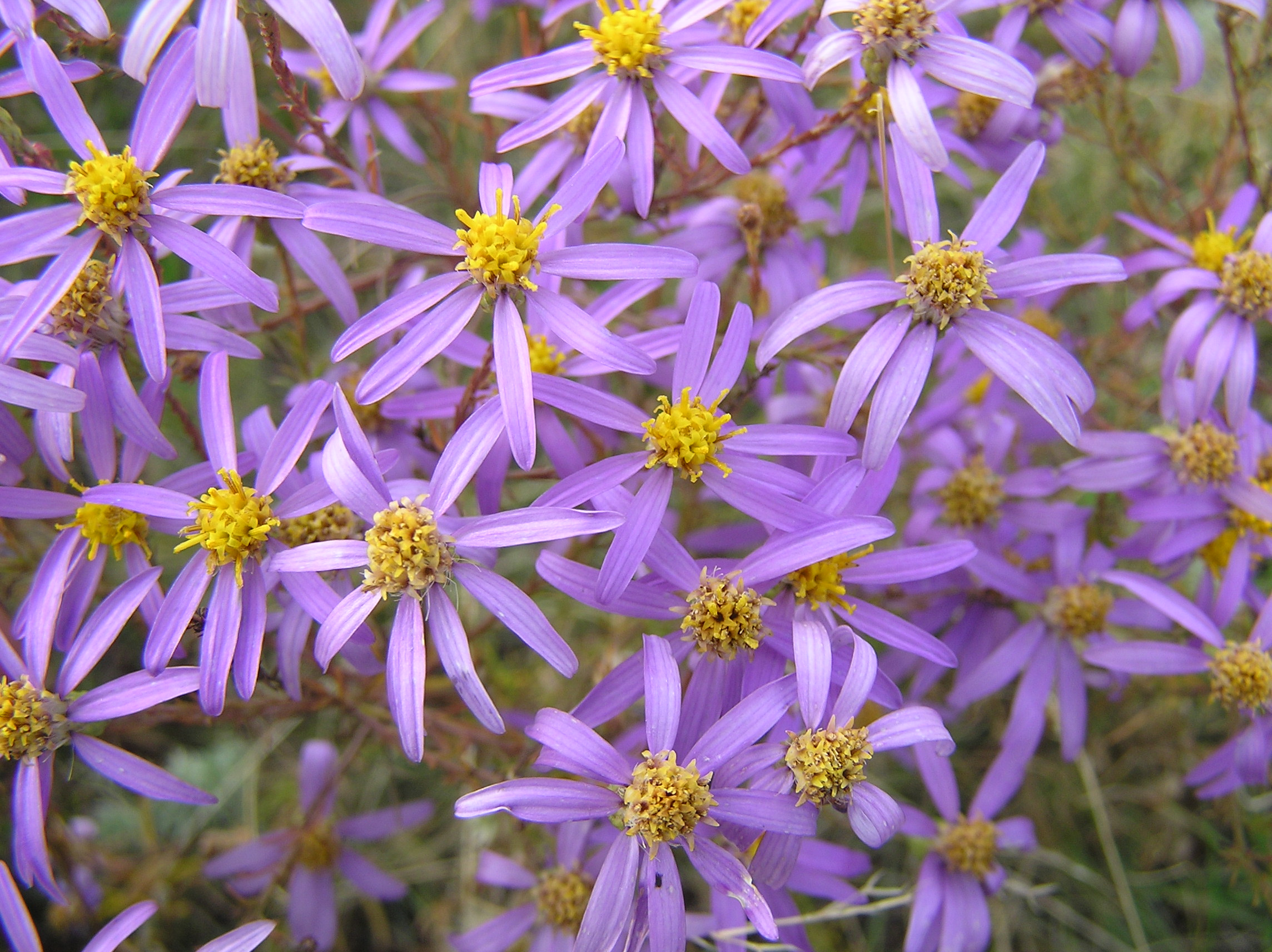 Galatella angustissima (Tausch) Novopokr., flowers. Habitat: steppe on a plateau. Vicinity of Saratov city, Russia.